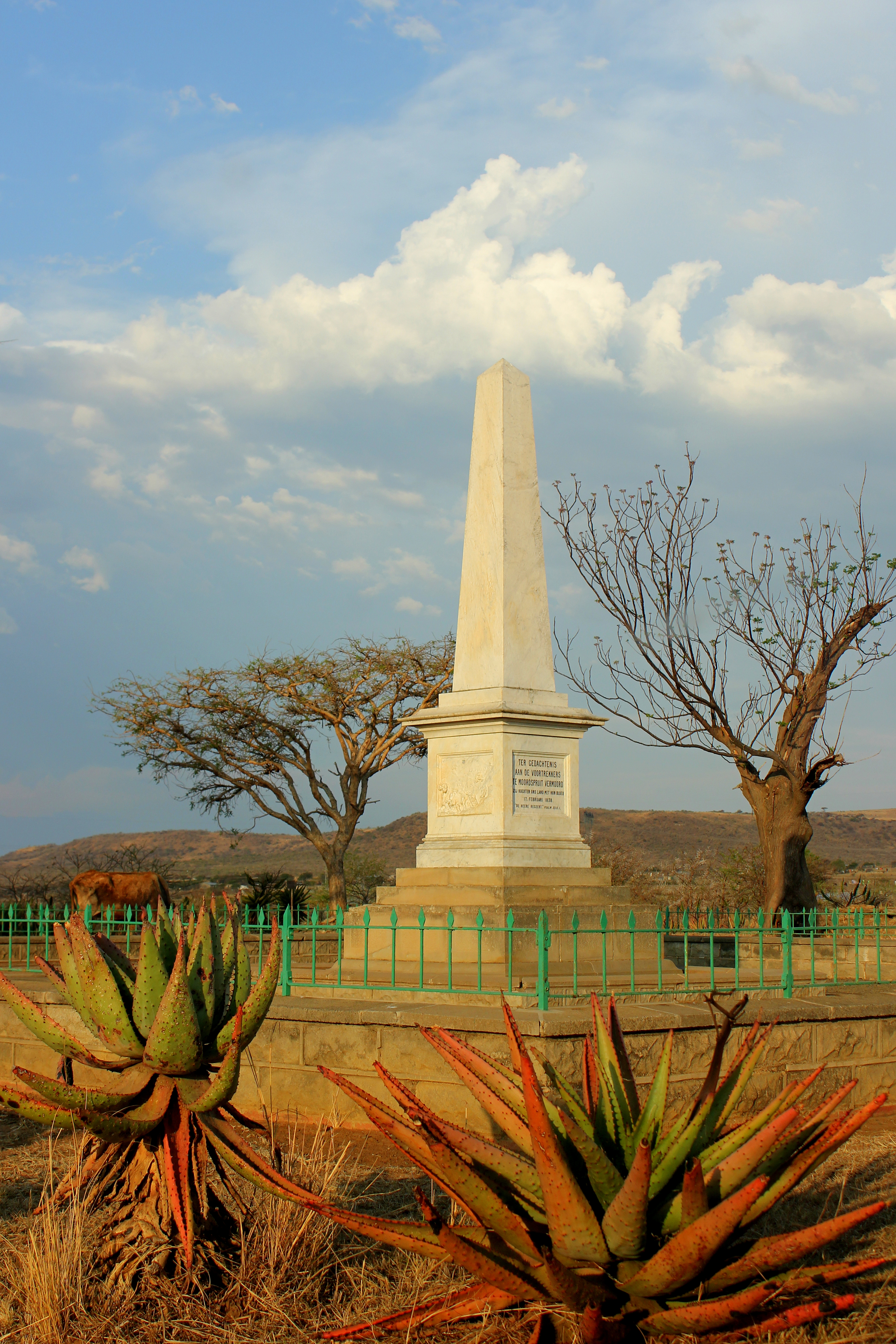 View of the Bloukrans Memorial commemorating the death of the Boers who lost their lives at Moordspruit, 17 February 1838. This media shows a South African Protected Site with SAHRA file reference 9/2/409/0018.